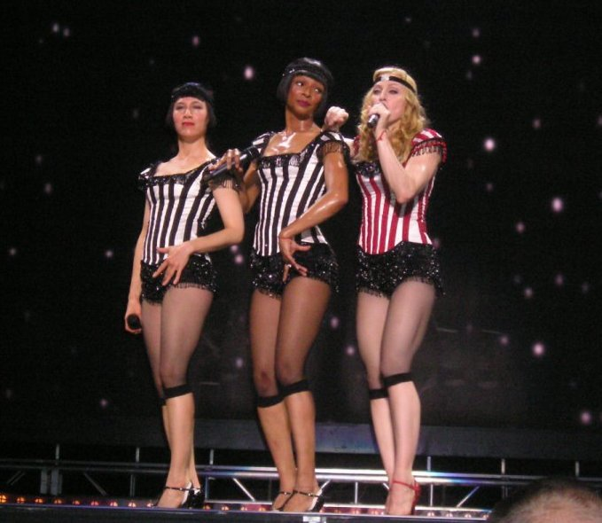 Picture taken at the Manchester concert